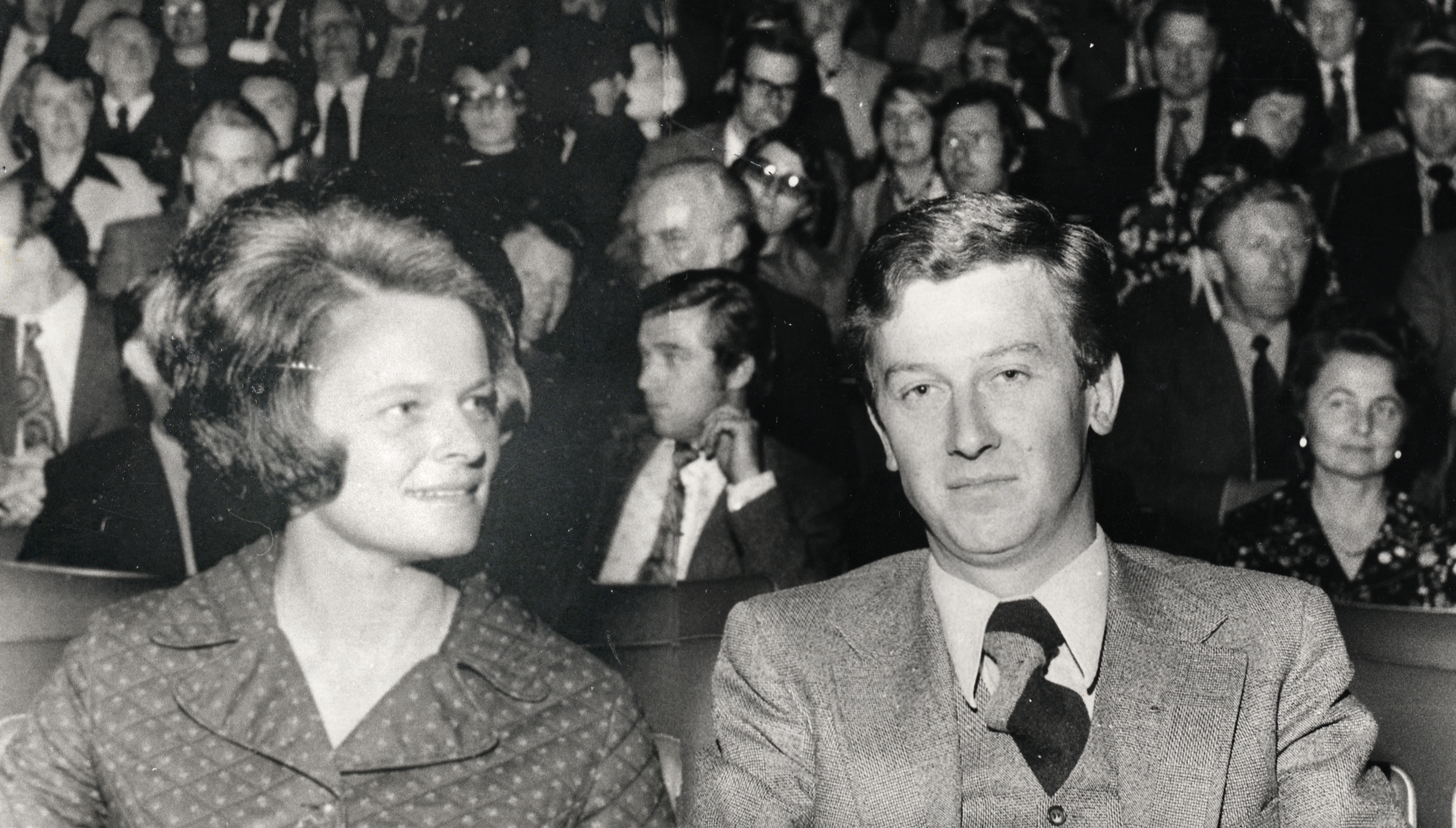 Gro Harlem Brundtland and Lars Harlem